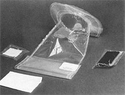 Fecal bag for use in the weightless environment